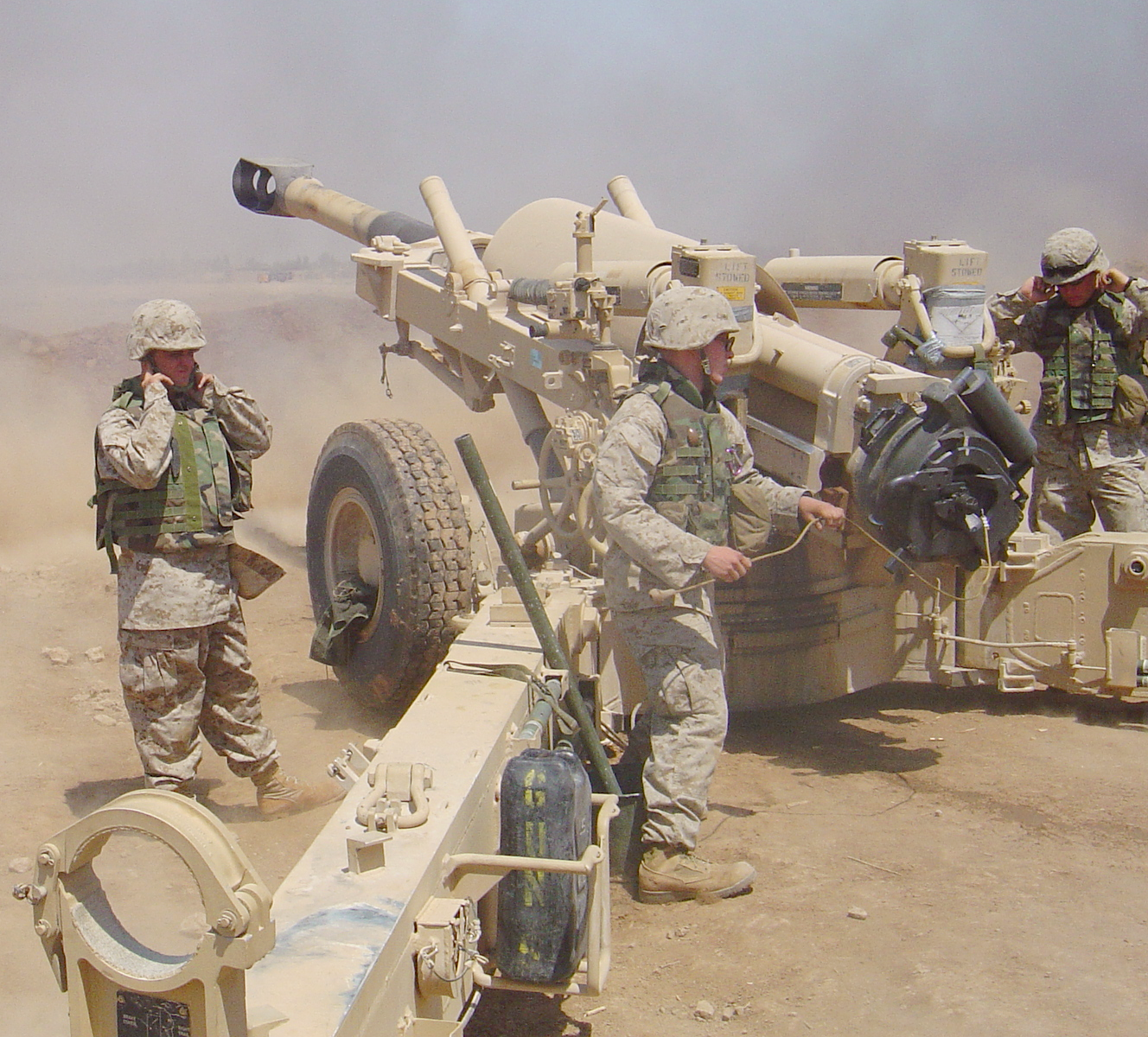 Picture taken in April 2004 in Camp Fallujah, Iraq.